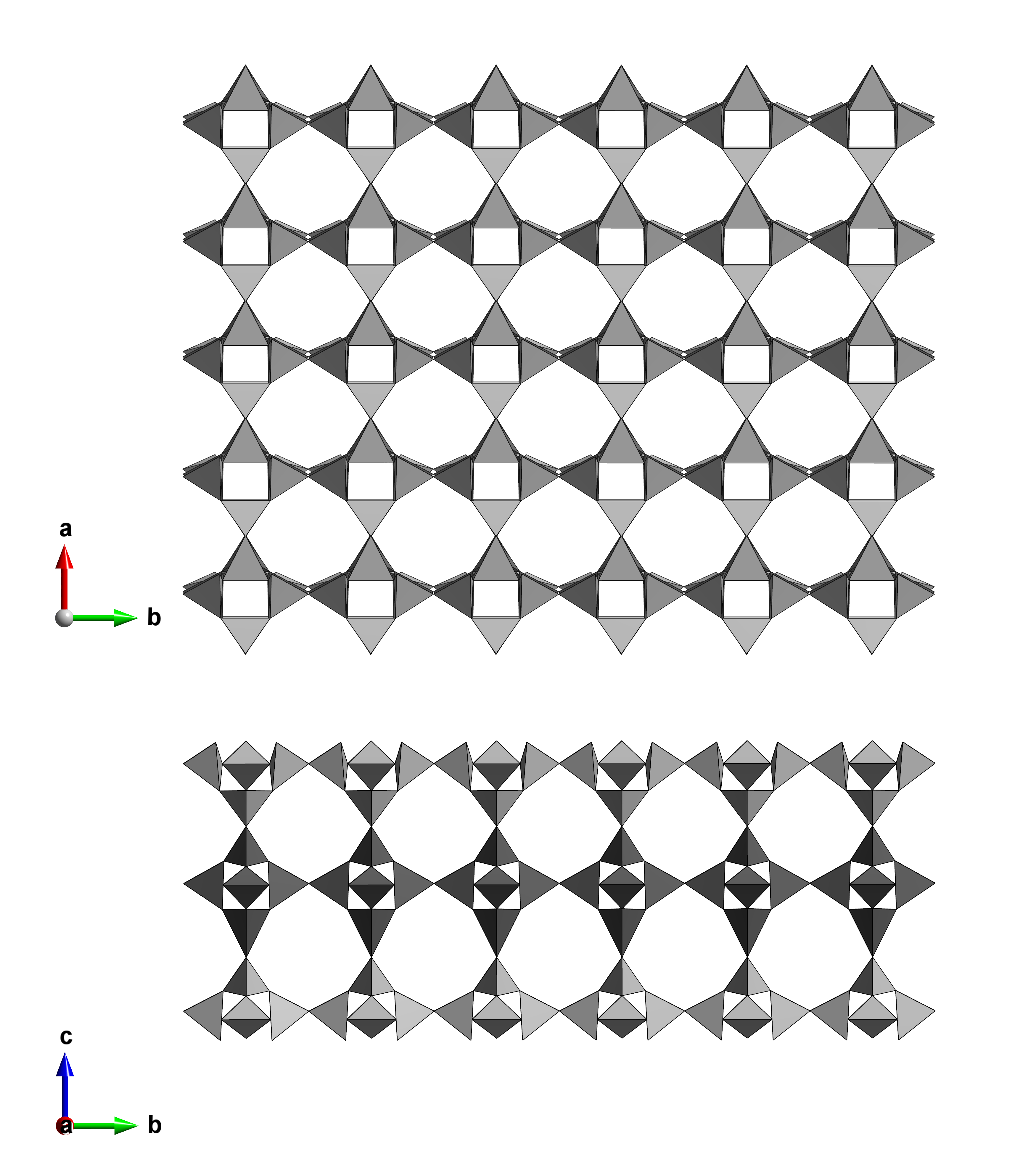 Tripel Layer Silicate Anion of Günterblassite Data from: R. K. Rastsvetaeva, S. M. Aksenov, and N. V. Chukanov (2012): Crystal Structure of Günterblassite, a New Mineral with a Triple Tetrahedral Layer, Doklady Chemistry 442, pp. 57-62 Rendering: K. Momma and F. Izumi, "VESTA 3 for three-dimensional visualization of crystal, volumetric and morphology data," J. Appl. Crystallogr., 44, 1272-1276 (2011).